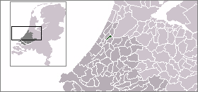 Location of Dutch former municipality Sassenheim in 2005. Made by me (Mtcv), PD.